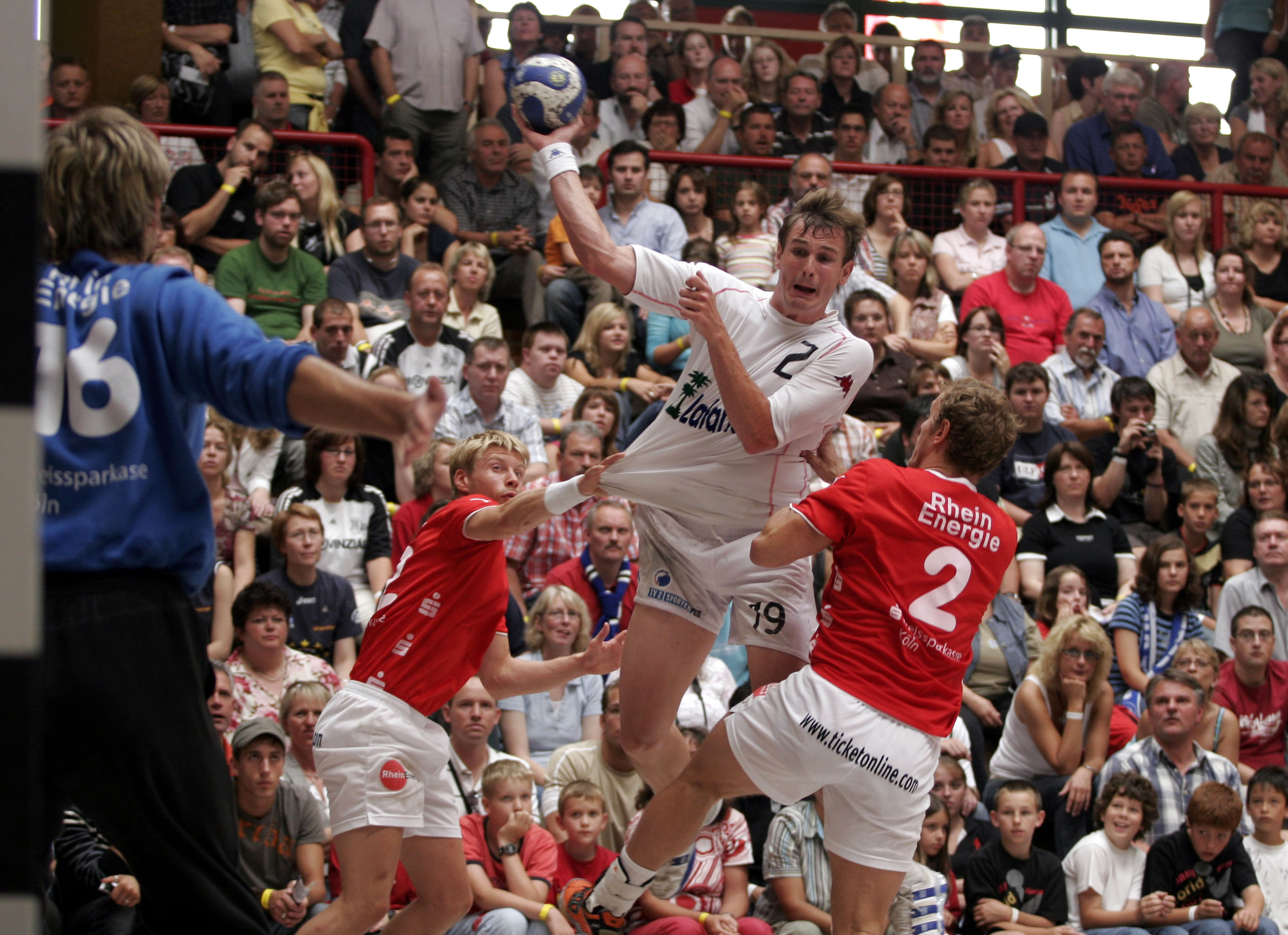 Martin Boquist, Swedish handball player from FCK Håndbold, during the Schlecker Cup 2007 in Ehingen (Germany)